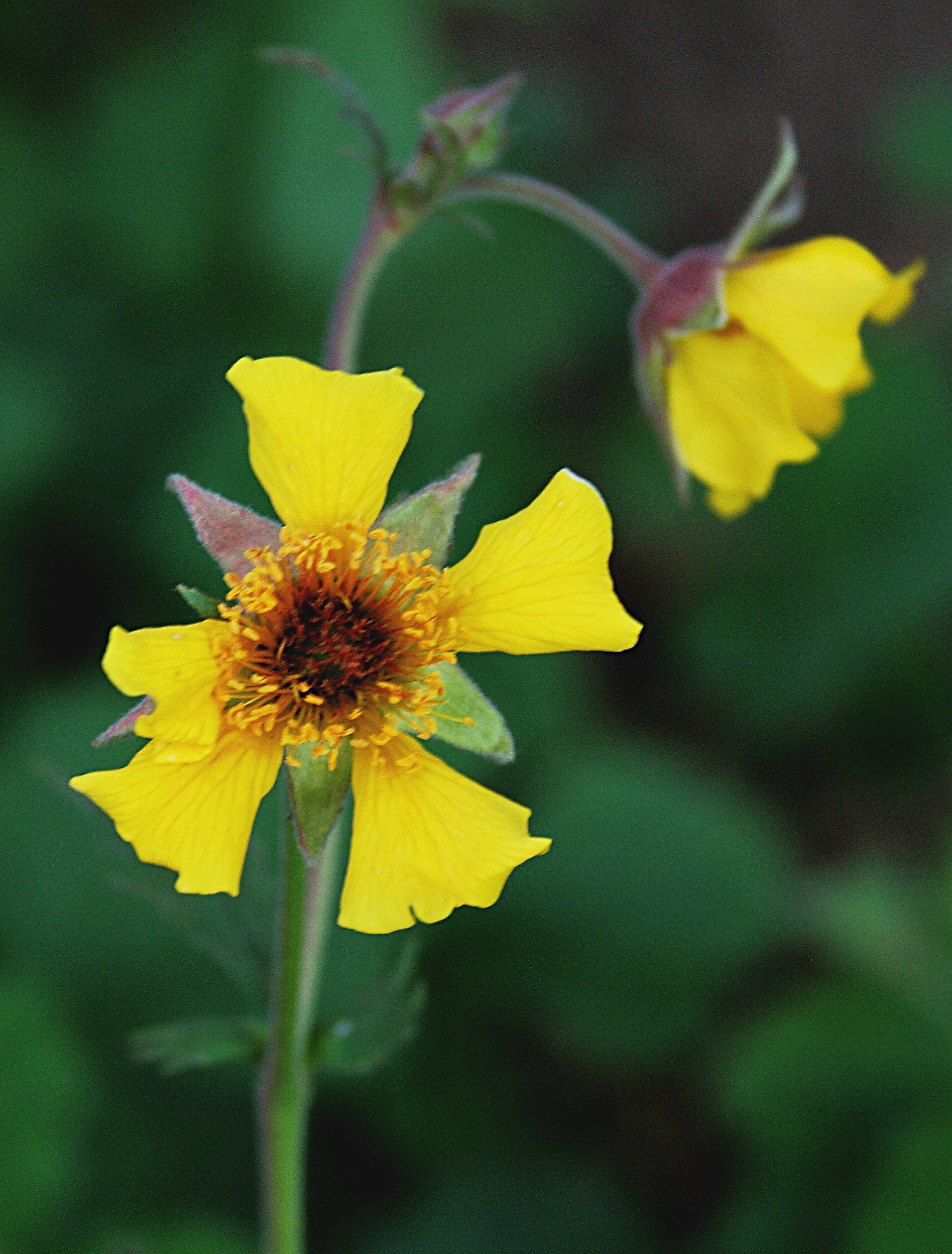 Ísland, Akureyri Botanical Gardens: Yellow_Avens_(Geum_aleppicum)